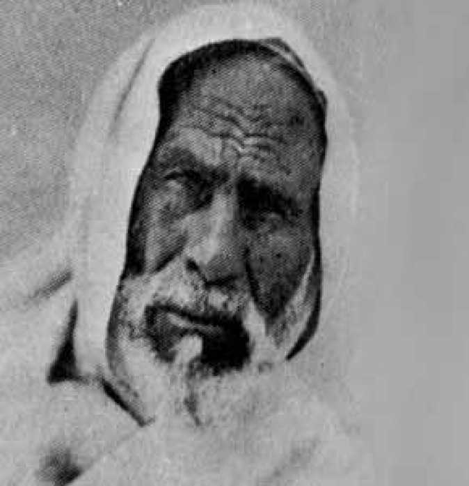 A close up to Omar Mukhtar's face.